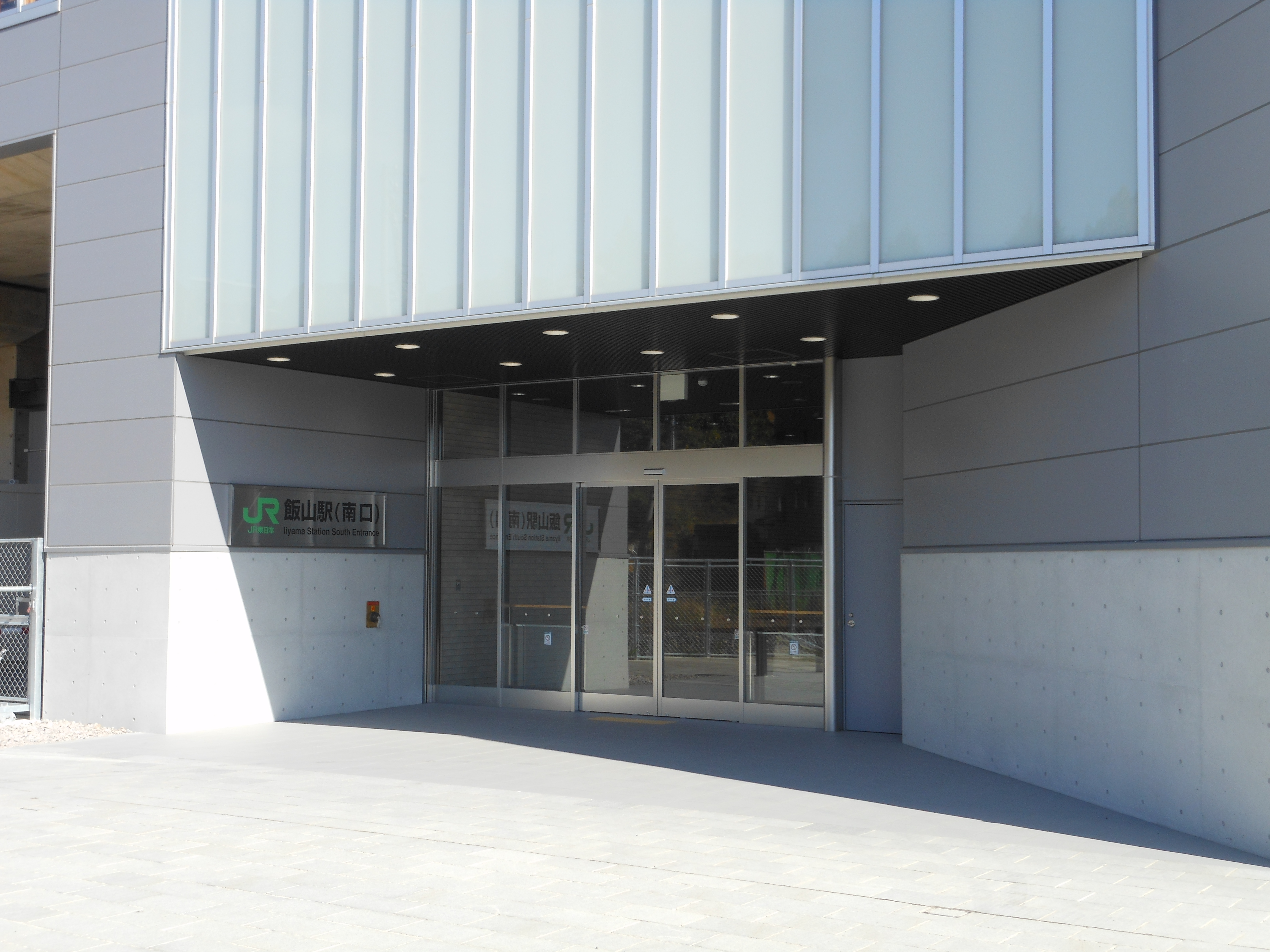 This is the South Entrance of JR Hokuriku Shinkansen and Iiyama Line Iiyama station.